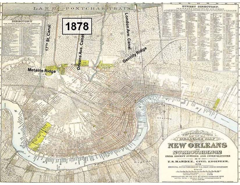 Image courtesy of USACE.